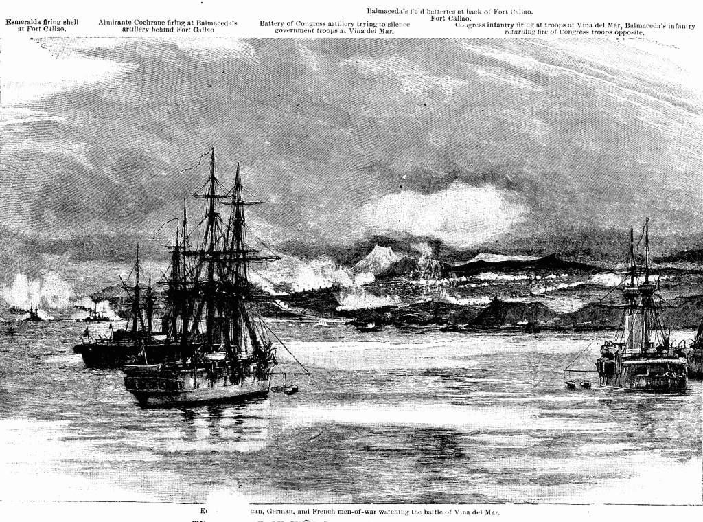 THE BATTLE OF VIÑA DEL MAR, CHILE, AUGUST 1891.